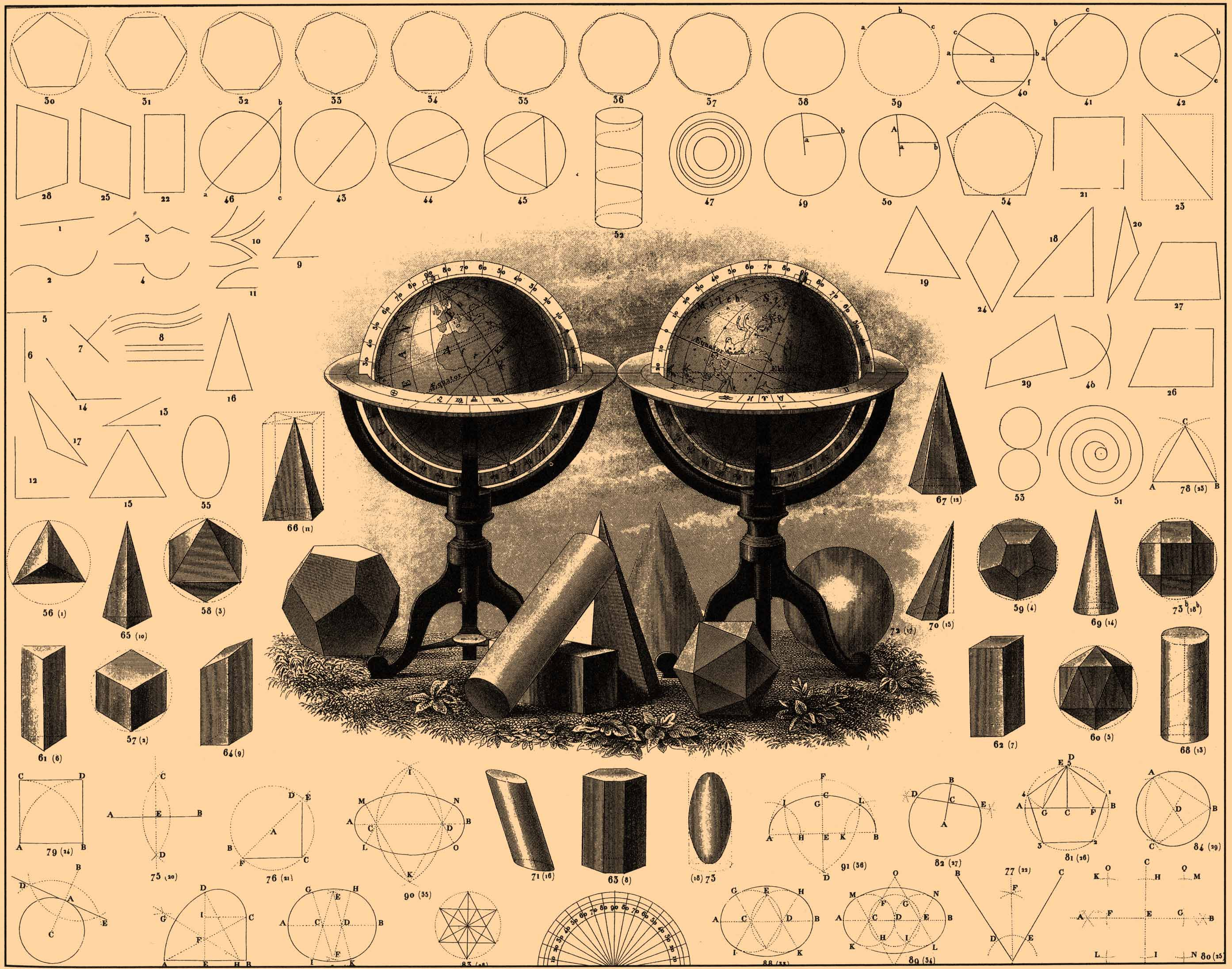 Illustration from Brockhaus and Efron Encyclopedic Dictionary (1890—1907)